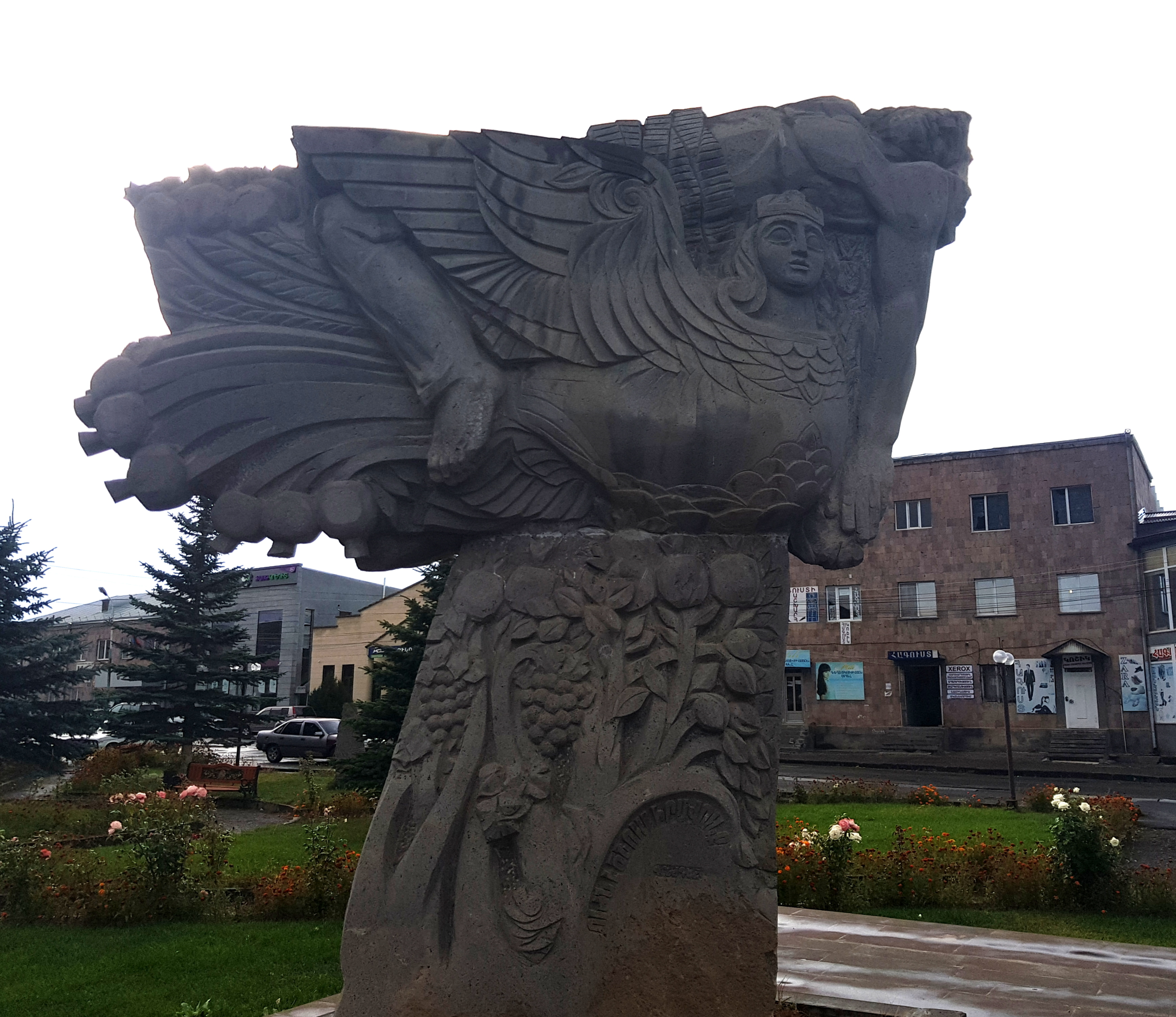 Artsakh War Memorial (Martuni, Armenia)